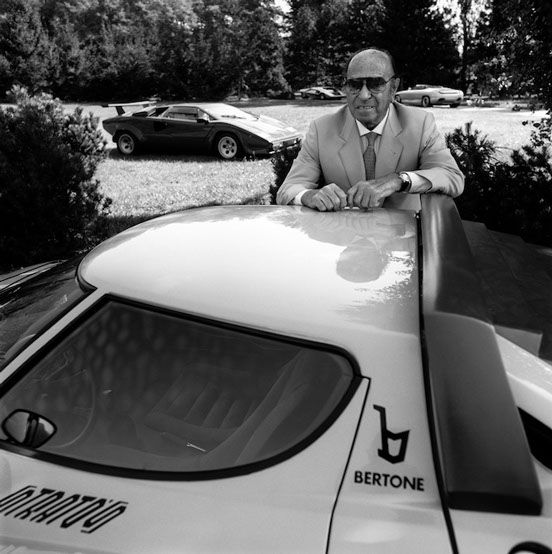 Nuccio Bertone leaning on the Lancia Stratos introduced 1973. In the back, a Lamborghini Countach. This is likely to be in the 1970s Italy.